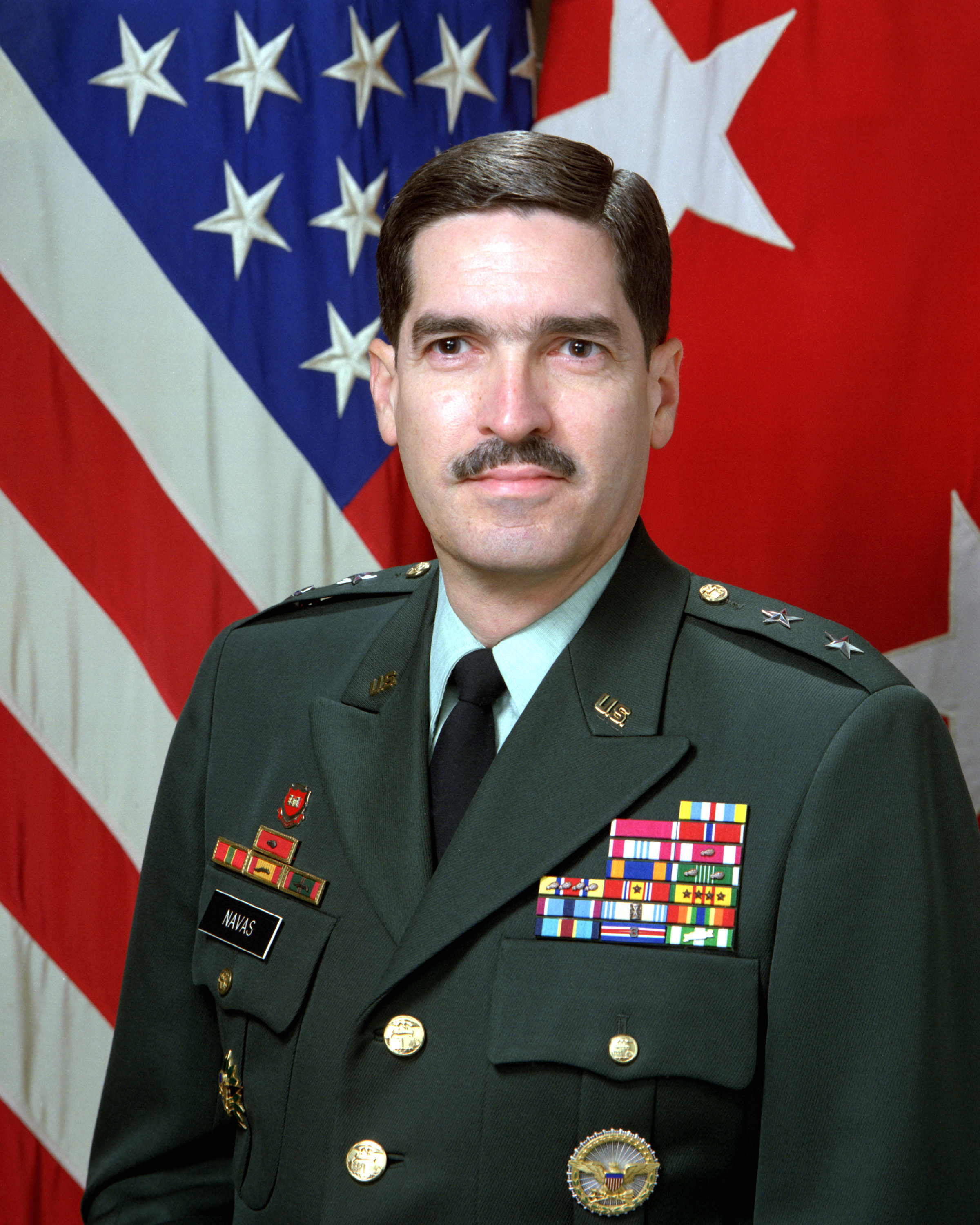 Major General William A. Navas, Jr., USADirector of the Army National Guard